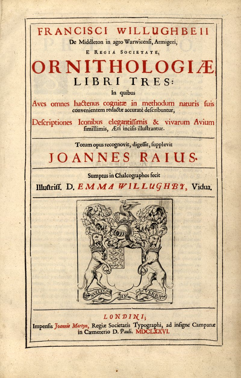 Title page of Francis Willughby's Ornithology (Ornithologiae Libri Tres), completed after his death by his friend John Ray, and published by John Martin, London, 1676